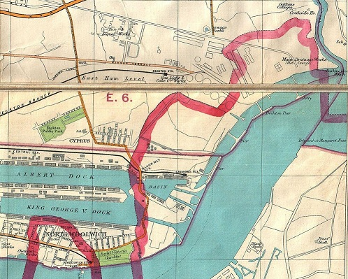 Map on North Woolwich from Bartholomew Fire Brigade Atlas of London.